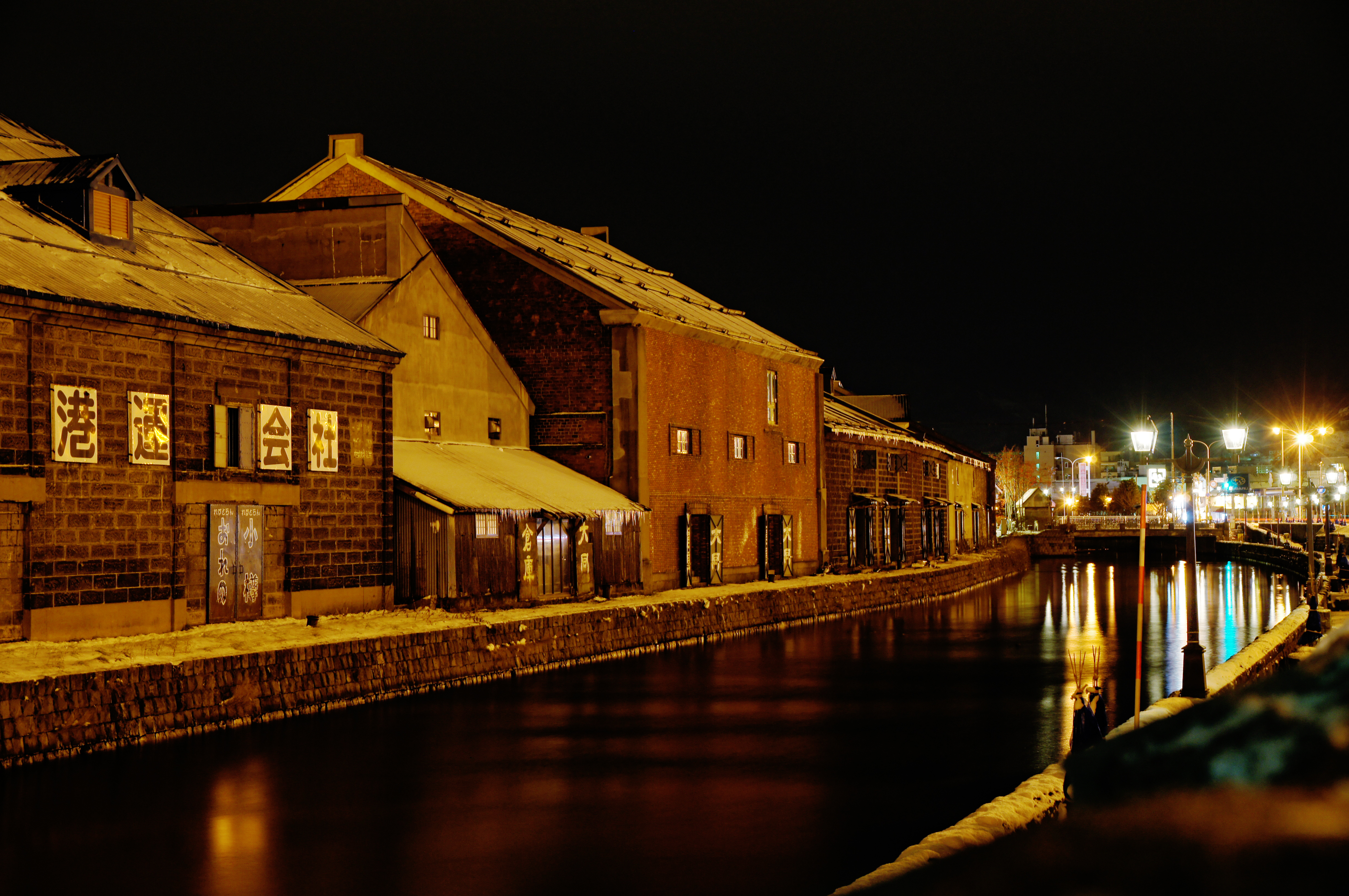 Otaru_Canal in Otaru, Hokkaido prefecture, Japan